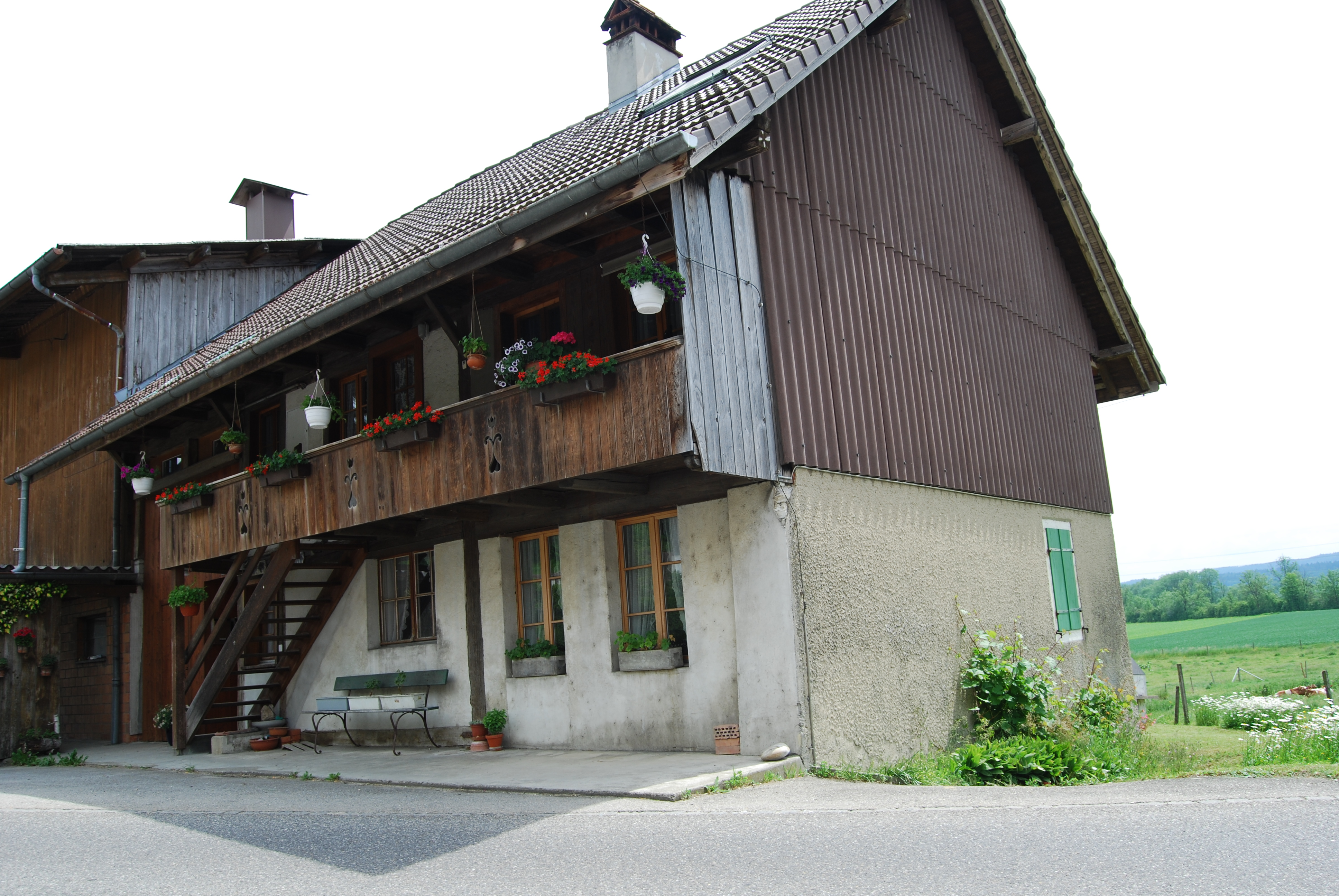 Meinisberg, canton of Bern, SwitzerlandEsperanto: Meinisberg, Kantono Berno, Svislando